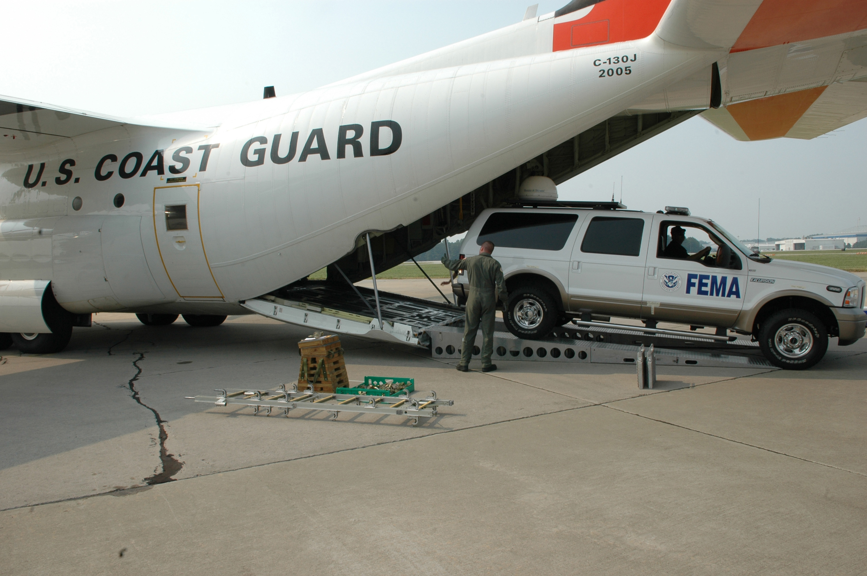 Marietta, GA, August 16, 2007 -- FEMA Federal Incident Response Support Team (FIRST) backs one of their trucks into a U.S. Coast Guard C130J cargo plane at Dobbins Air Reserve Base in preparation of flying to Puerto Rico to respond to impacts from Hurricane Dean. The FIRST Team leads FEMA's initial response to disasters. Mark Wolfe/FEMA